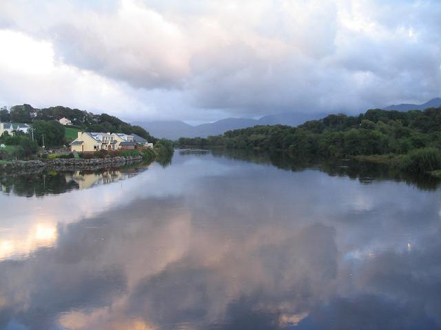 River Laune, Killorglin